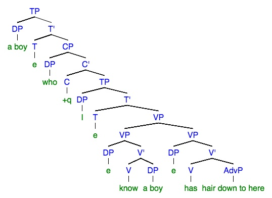 Phrase tree structure for ungrammatical sentence: "A boy who I know a boy who has hair down to here"